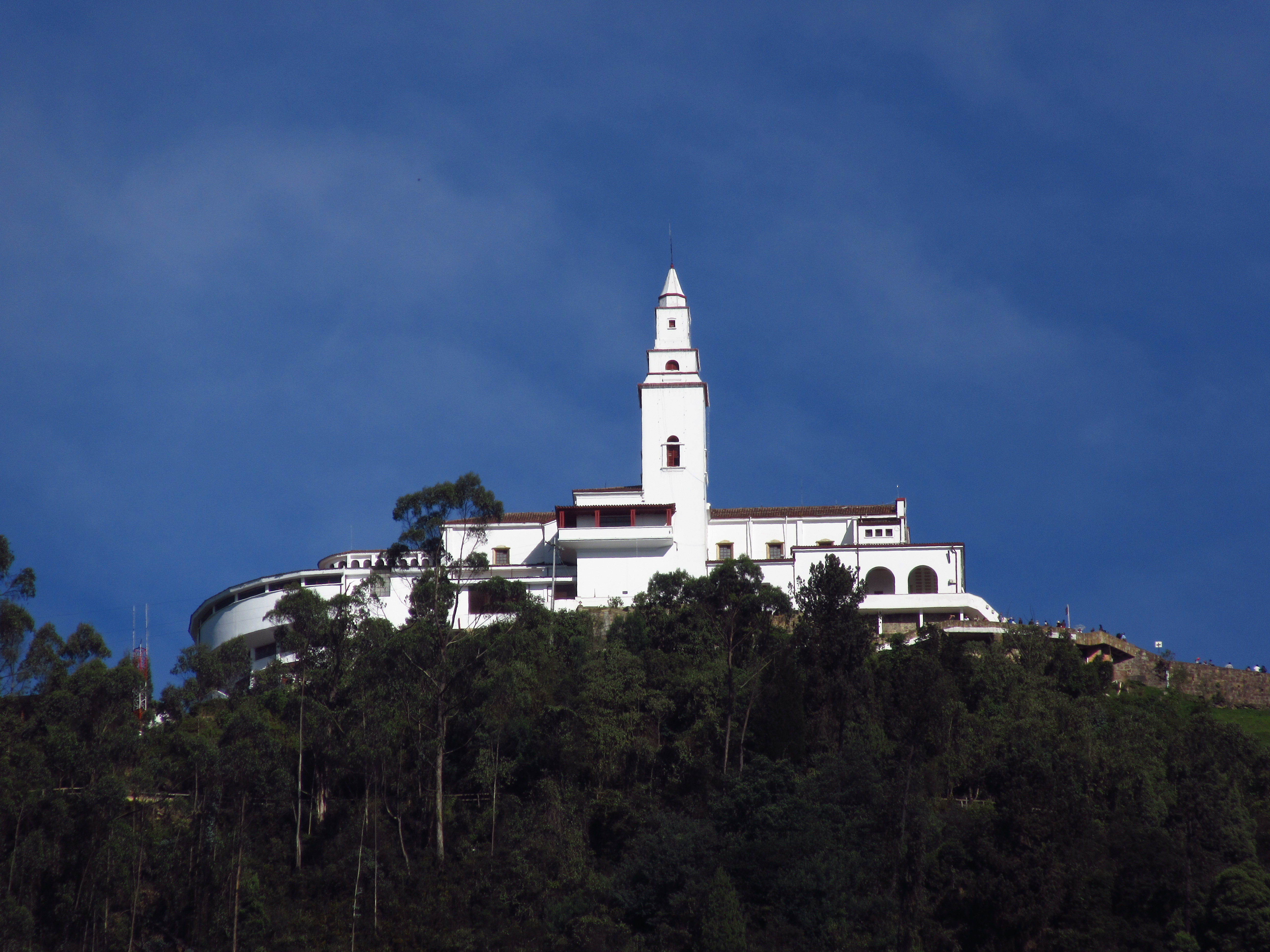 Bogotá